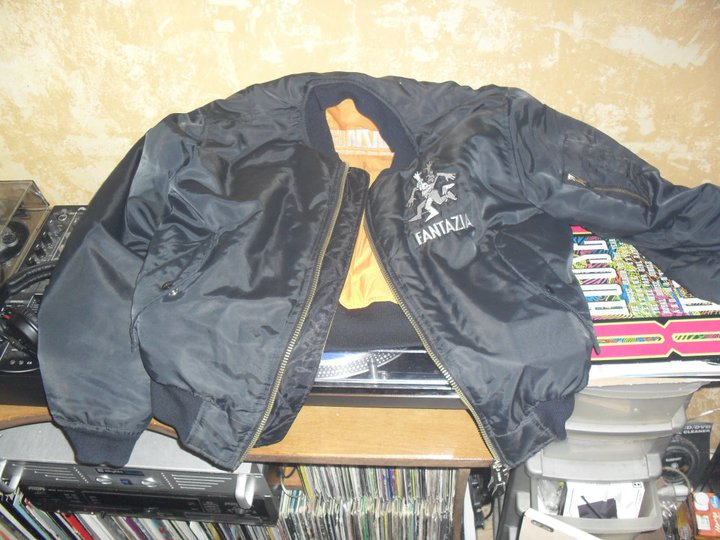 Original Fantazia MA1